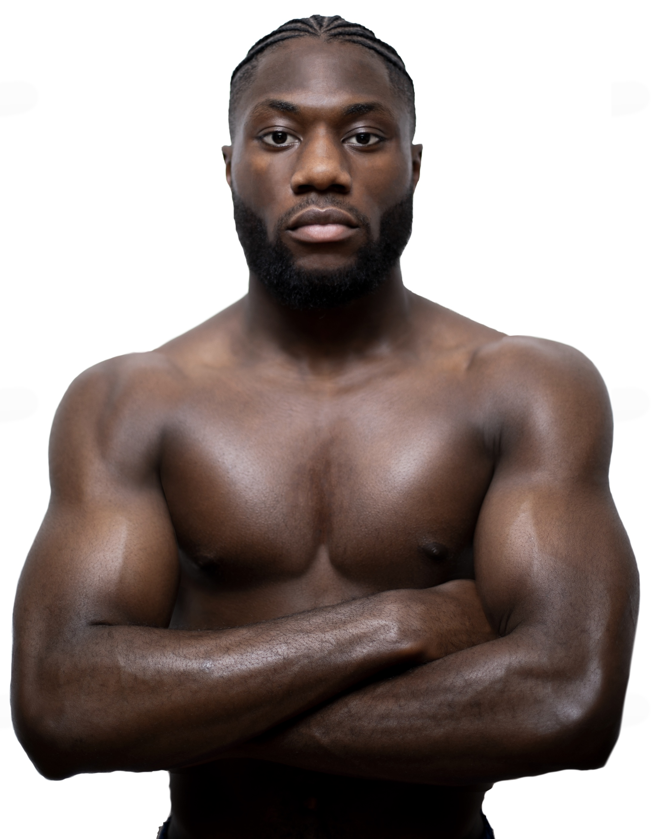 Headshot of British Congolese Professional Boxer Jonathan Kumuteo